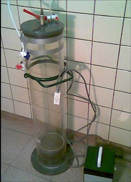 Odour_Sampling_4